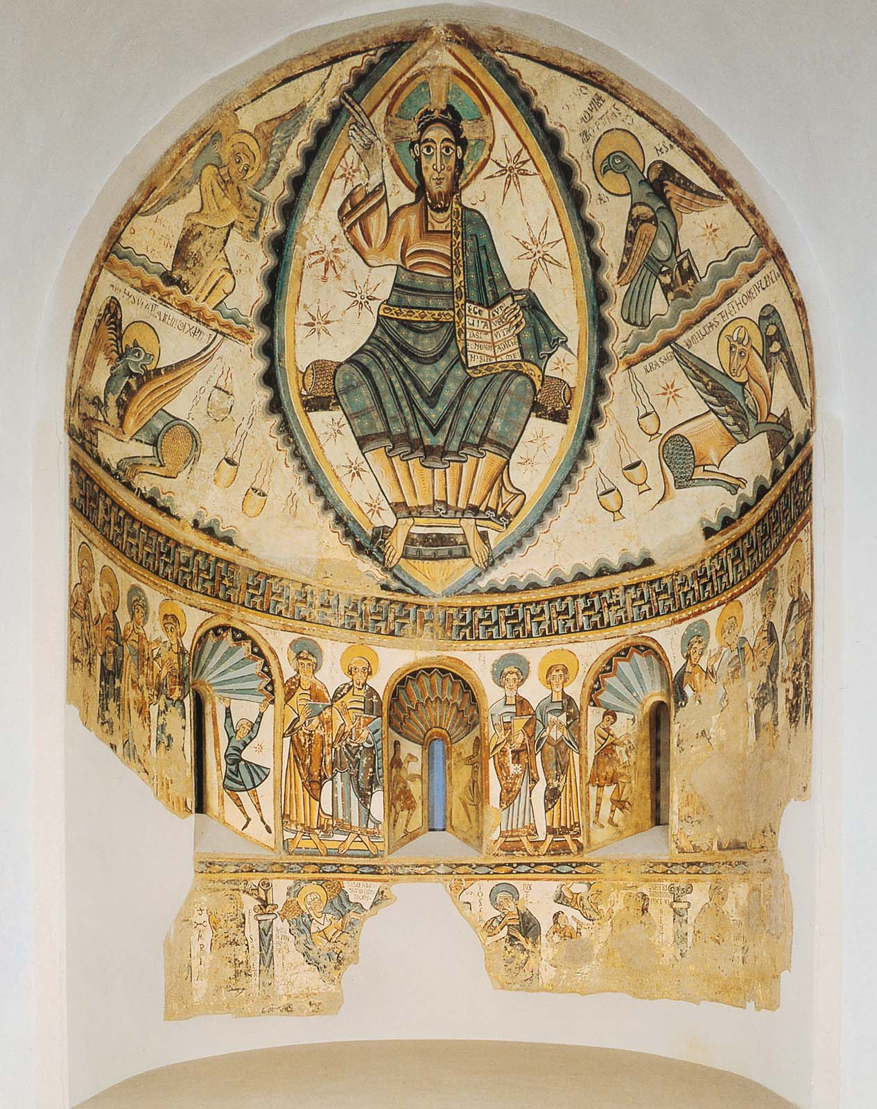 Mural paintings of the central apse of the Santa Maria de Mur monastery in Catalonia, Spain, currently at the Museum of Fine Arts in Boston. The central apse shows a Pantocrator at the top, within a mandorla and a decoration of nine stars, in addition to the alpha and the omega. Jesus Christ in Majesty is blessing the world, with a book on his left knee. It is surrounded by the symbols of the four evangelists. Complete the upper level inscriptions of religious texts and seven lamps.